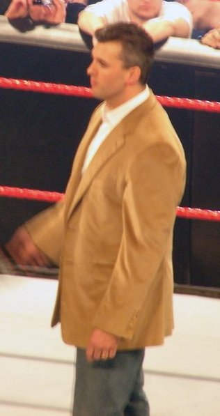 An image of Shane McMahon